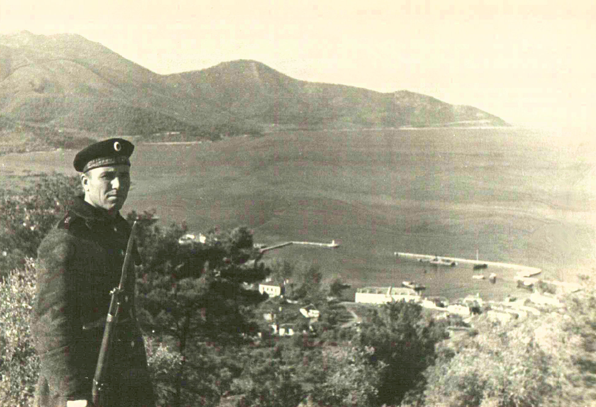 Limenas Thasos